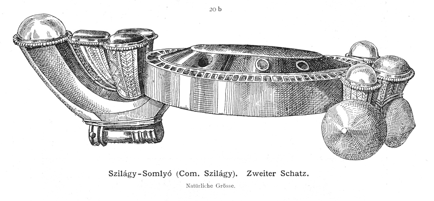 Szilágysomlyó treasure